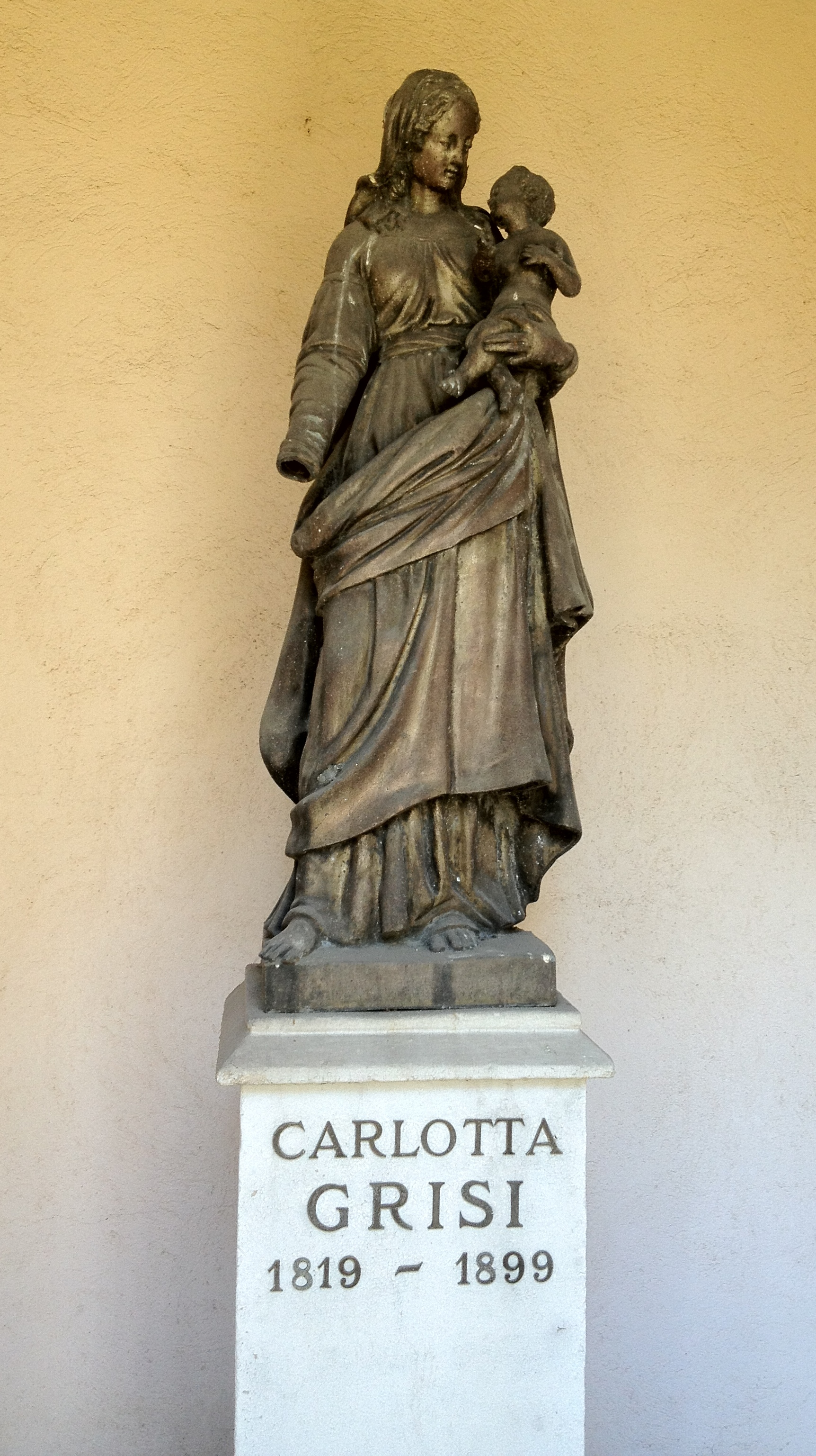 Tomb of Carlotta Grisi, Cemetery of Châtelaine near Saint-Jean, Geneva